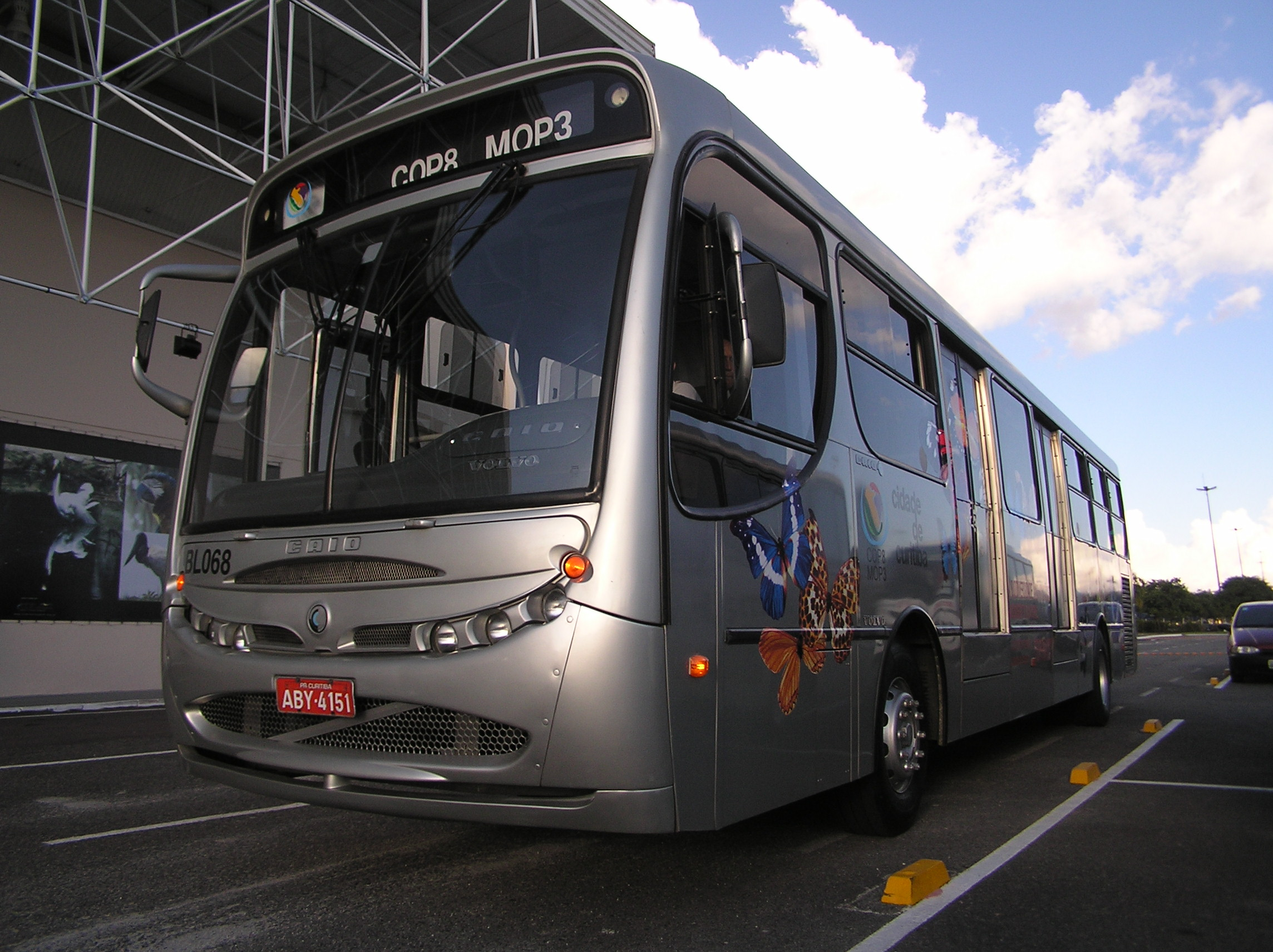 COP8MOP3: Induscar CAIO Apache VIP bus (reg. ABY-4151, #BL068) with Volvo B7R chassis in Curitiba, Paraná, Brazil.